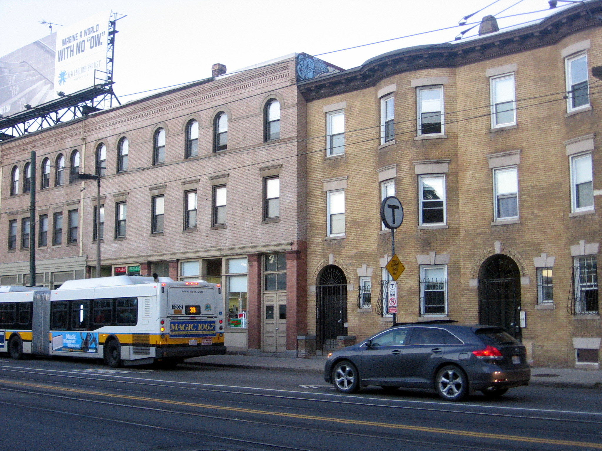 39 bus leaving Riverway stop